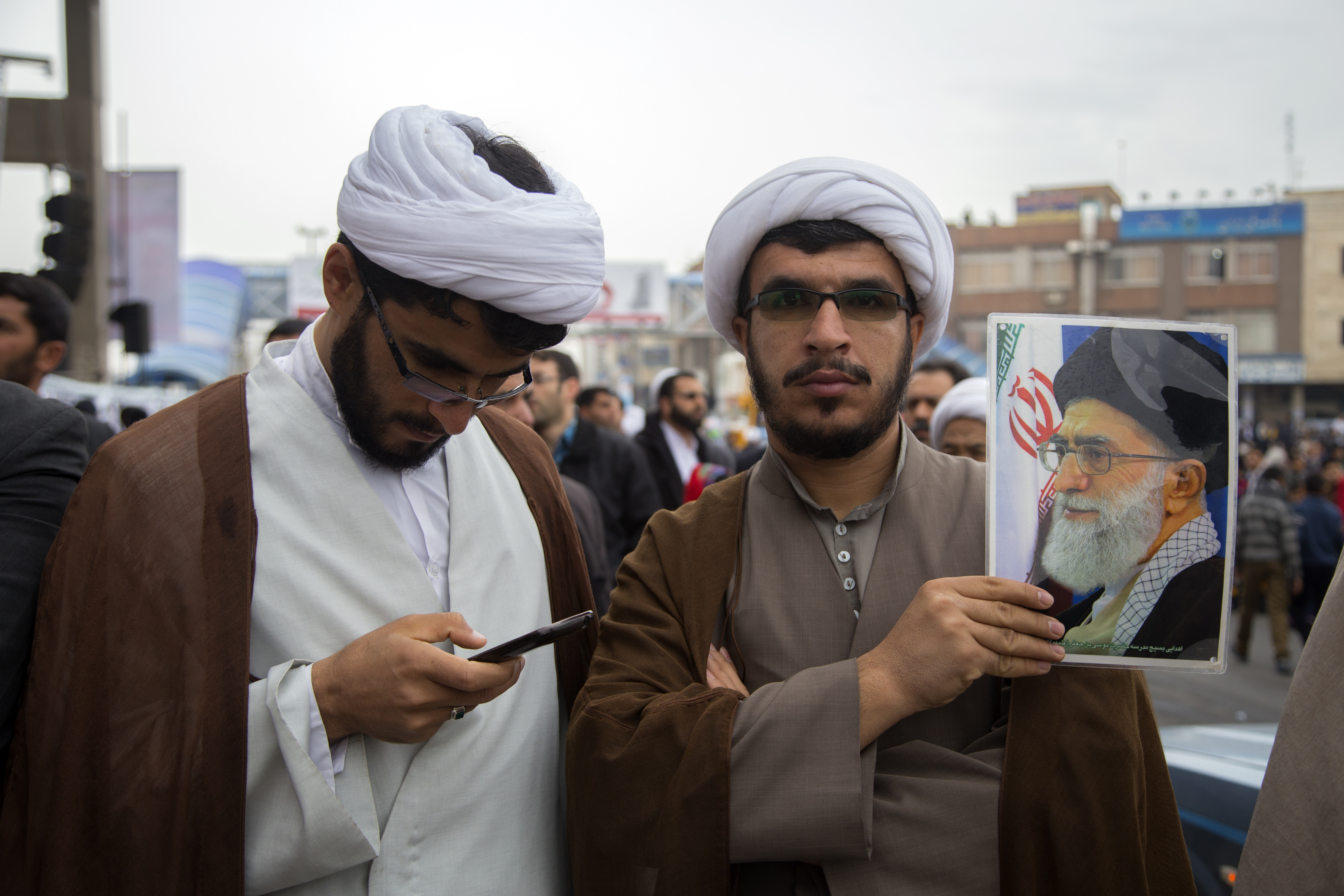 The anniversary of Islamic revolution is celebrated on 11 February 1979 and Iranian marches toward Azadi Tower. This political celebration held on the last day of Fajr decade.